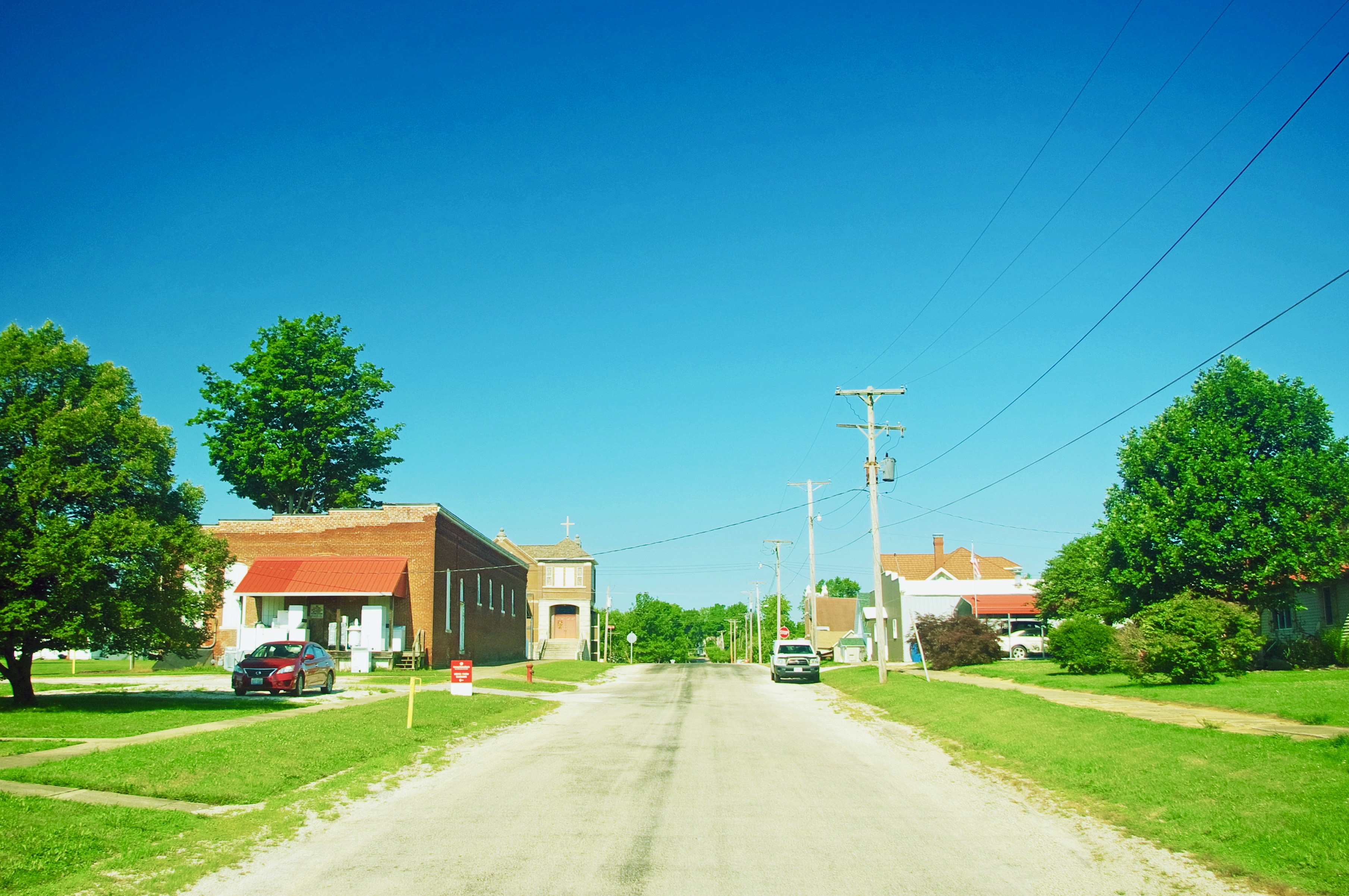 View along First Street in Flat Rock, Illinois, United States.